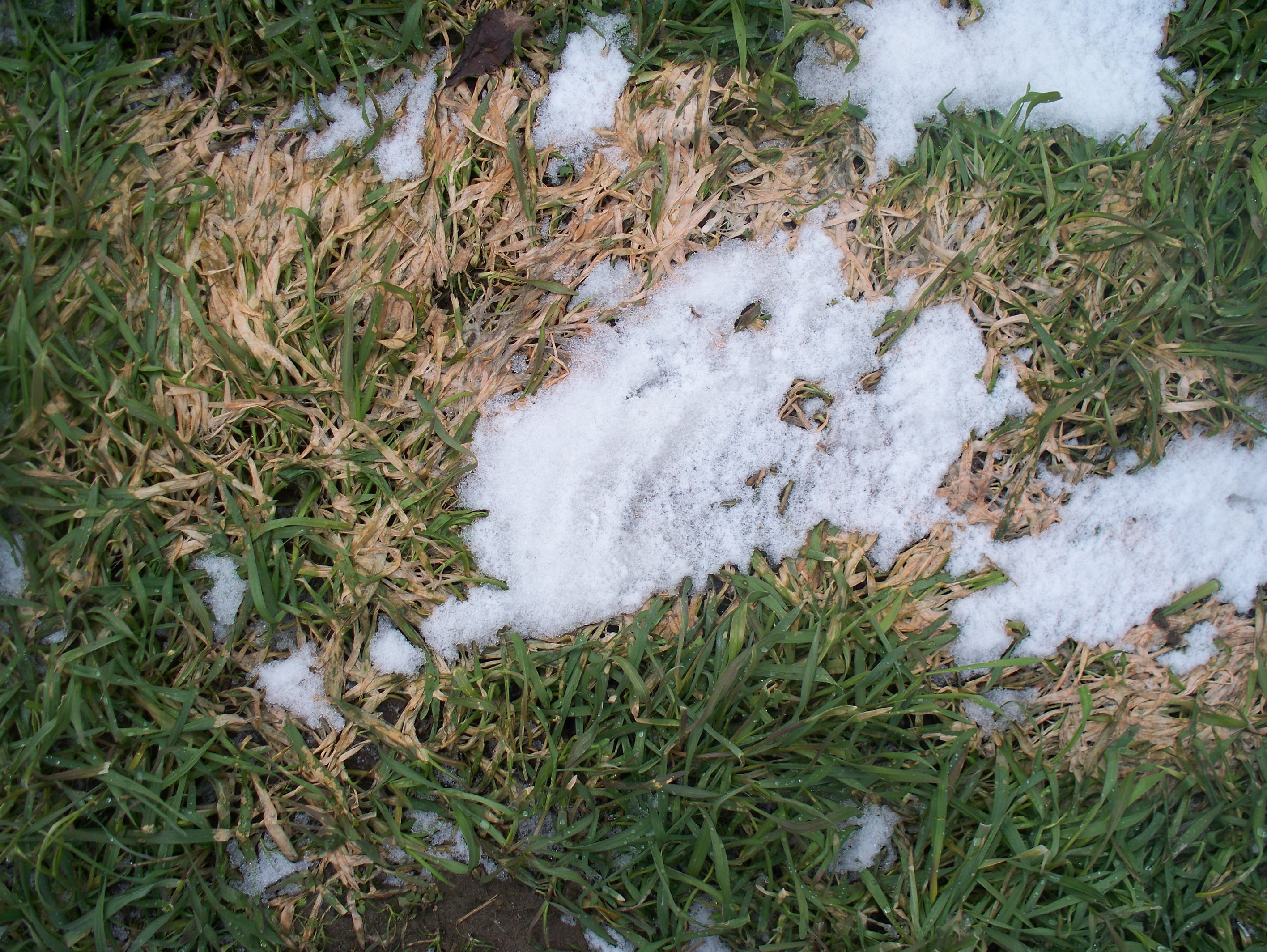 Microdochium nivale at Secale cereale